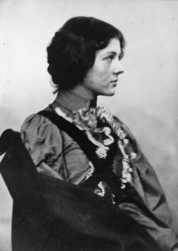 Paula Beer-Hofmann (nee Lissy; 1879–1939), wife of Richard Beer-Hofmann (1866–1945), Austrian dramatist and poet.